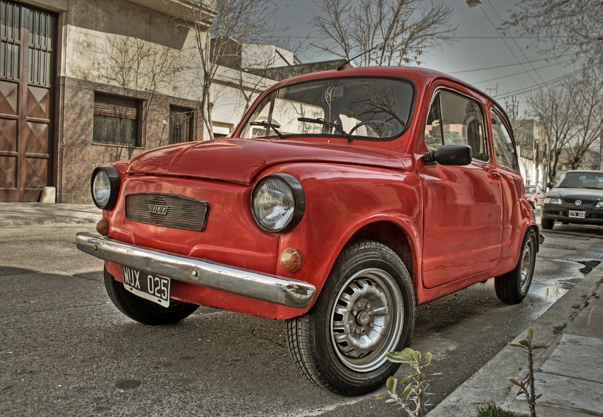 An Argentine Fiat 600S, 1981 or 1982.